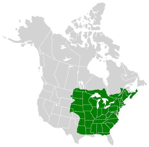 Range map of the Eastern Comma, (Polygonia comma) in North America.